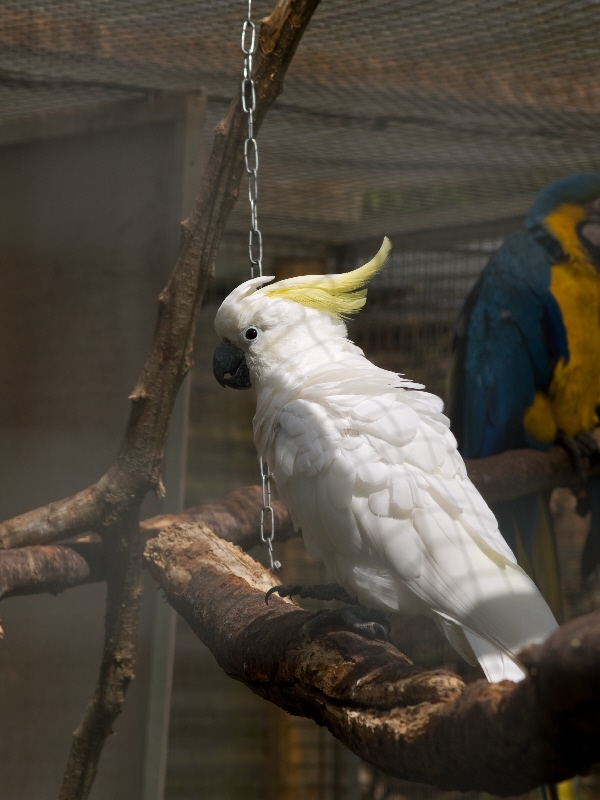 Sulphur-crested Cockatoo at Nordsjaellands Fuglepark & Zoo, North Zealand, Denmark. The zoo have two subspecies, Elanor's cockatoo and Triton Cockatoo, and this cockatoo is difficult to identify to subspecies level from this photograph.